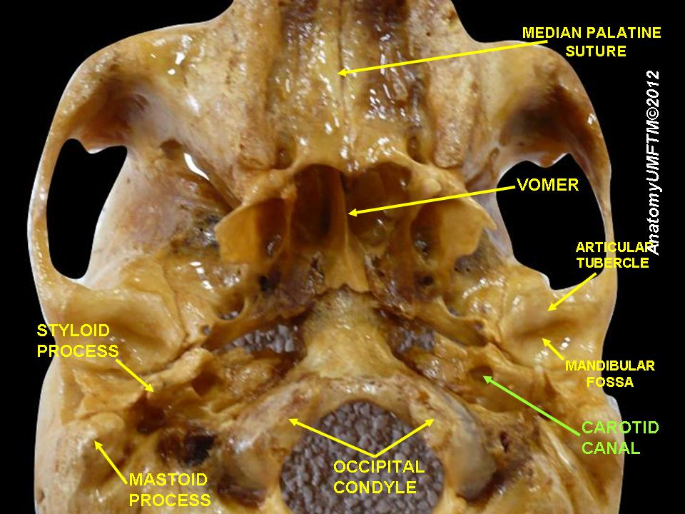 Anatomical dissections